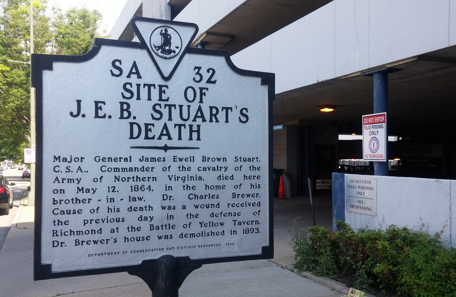 The marker on Grace Streeet, Richmond